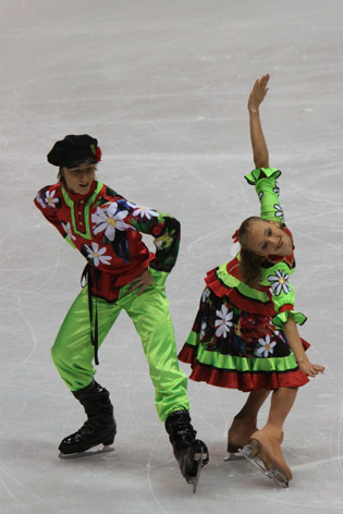 Victoria SINITSINA and Ruslan ZHIGANSHIN (RUS) at the 2009-2010 Junior Grand Prix Lake Placid. Original dance - Folk, Country